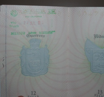 Passport stamp granted at land border in the state of Baja California, Mexico.